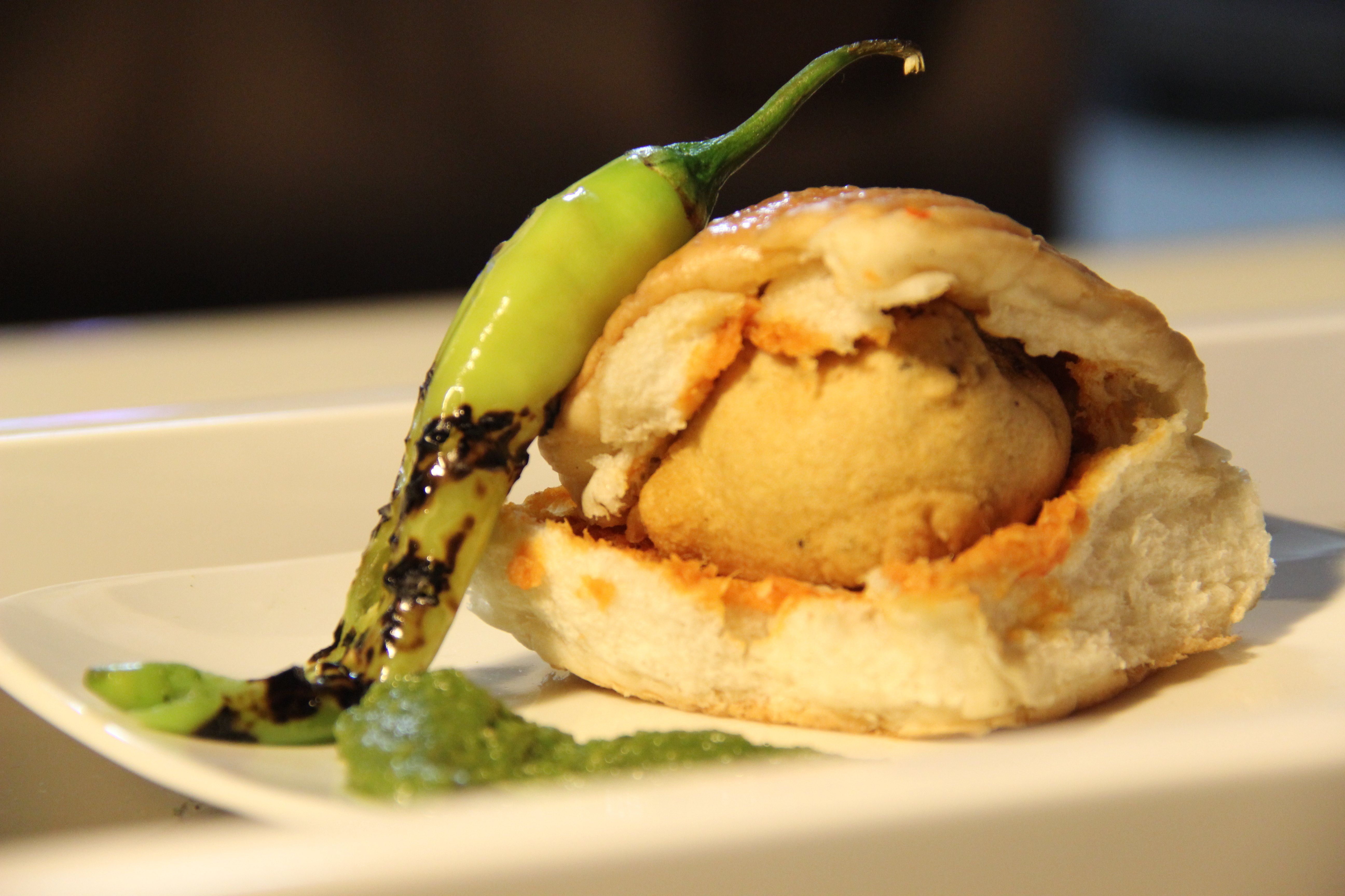 Vada Pav is a very appetizing and delicious dish.It is most preferred in Mumbai.